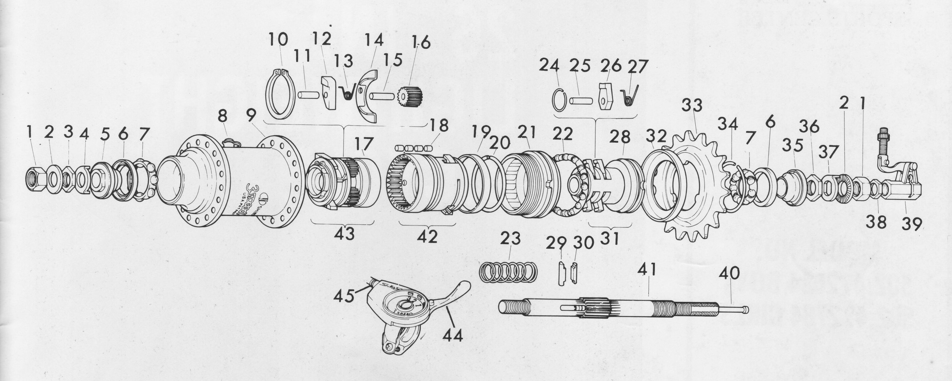 Exploded diagram of internal 3 speed Shimano hub from a Sears bicycle